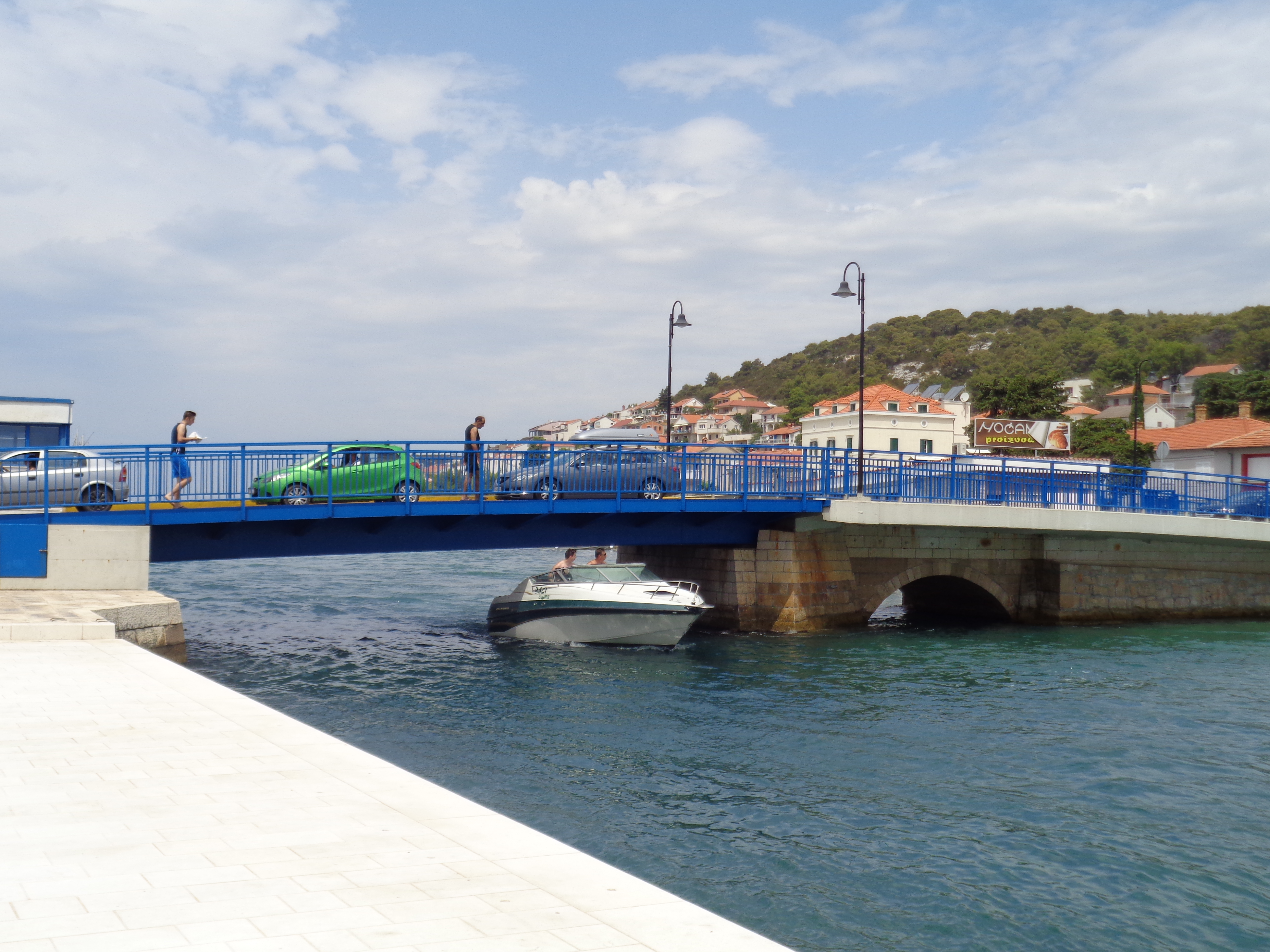 Road bascule bridge in Tisno, Šibenik-Knin County, Croatia